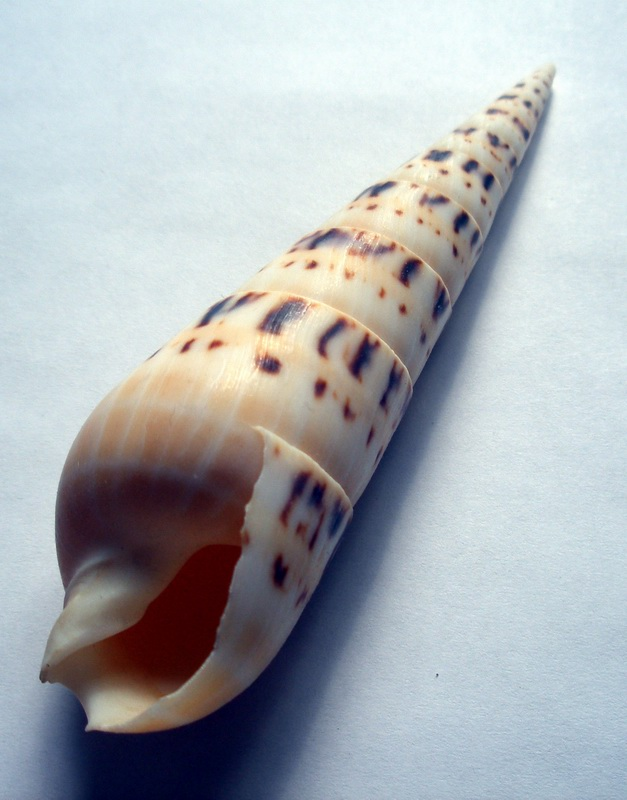 shell of Oxymeris maculata (synonym : Acus maculatus). Determined by User:Snek01 based on Bruyne (2004).[1] ↑ de Bruyne R. H. (2004). Encyklopedie ulit a lastur. Rebo Productions, 336 pp., ISBN 80-7234-288-6, page 210.